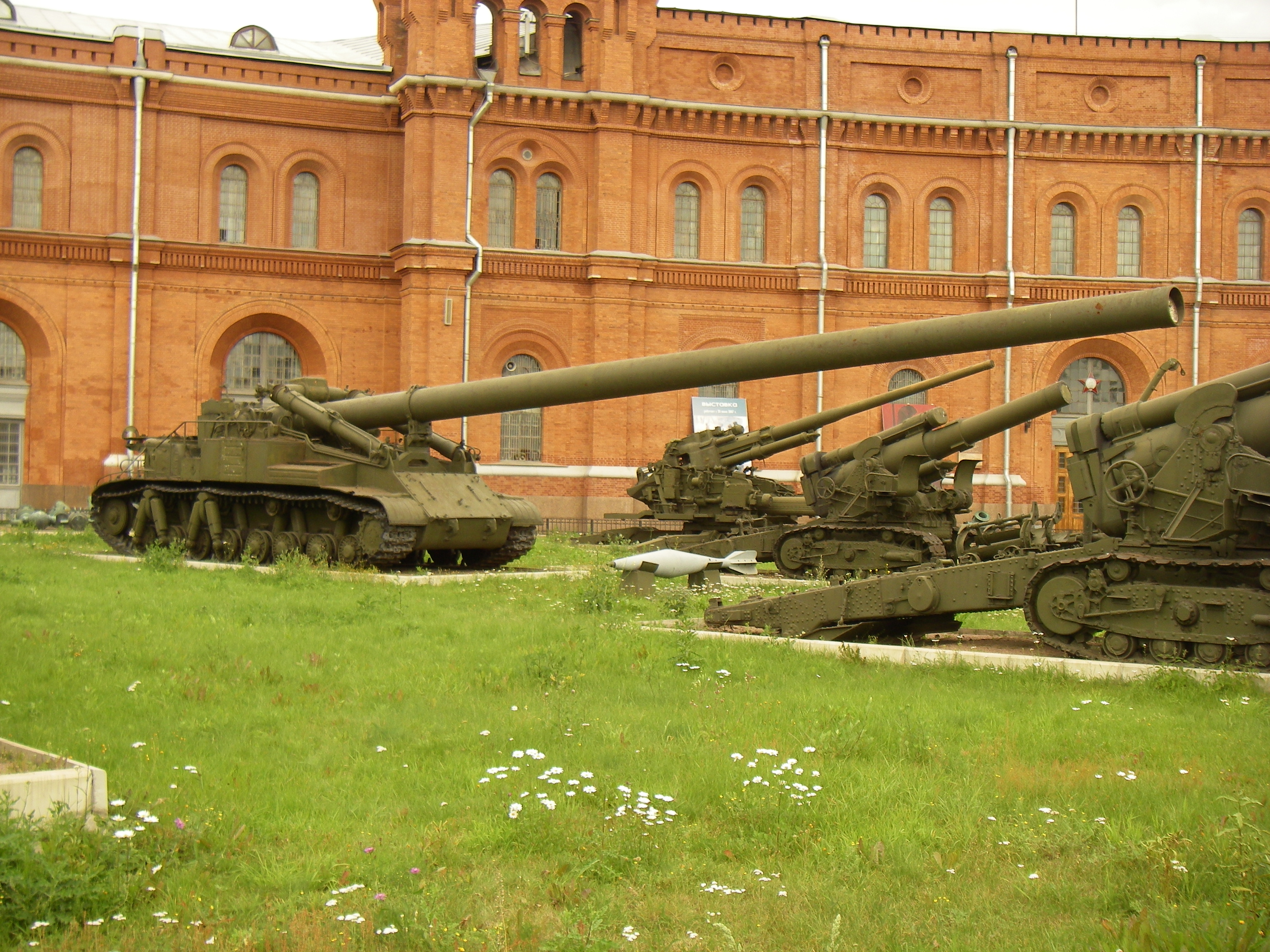 420-mm self-propelled mortar 2B1 «Oka» and its shell in Saint-Petersburg Artillery museum